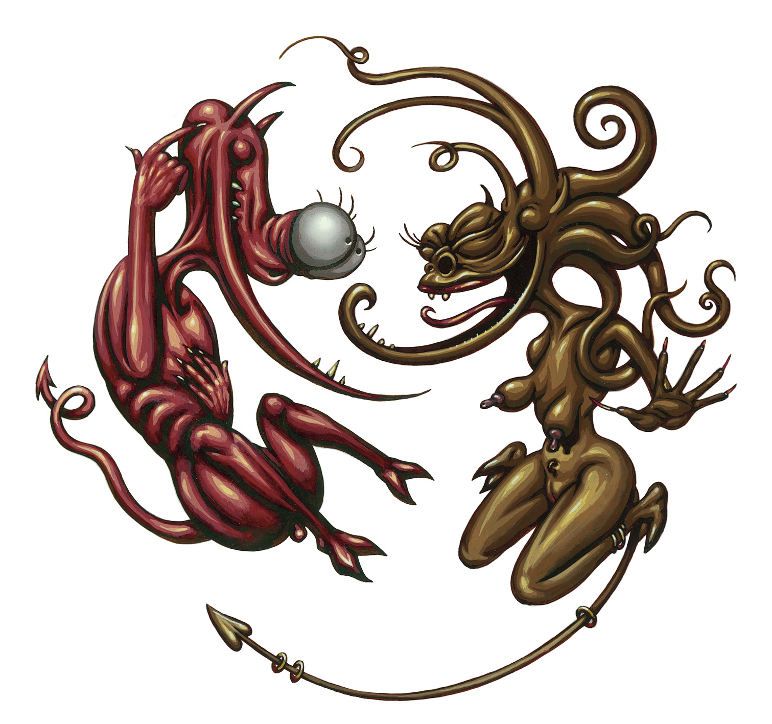 "Jon Demon og Kona Mona". Illustration from the book Jon Demon by norwegian author and illustrator Reidar Kjelsen